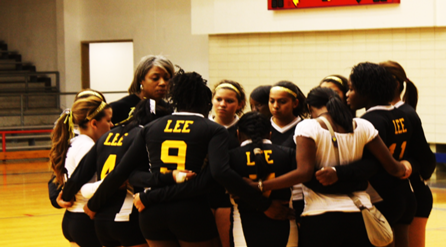 The Lee High School Volleyball Team planning their defeat plan during a playoff game in 2012.